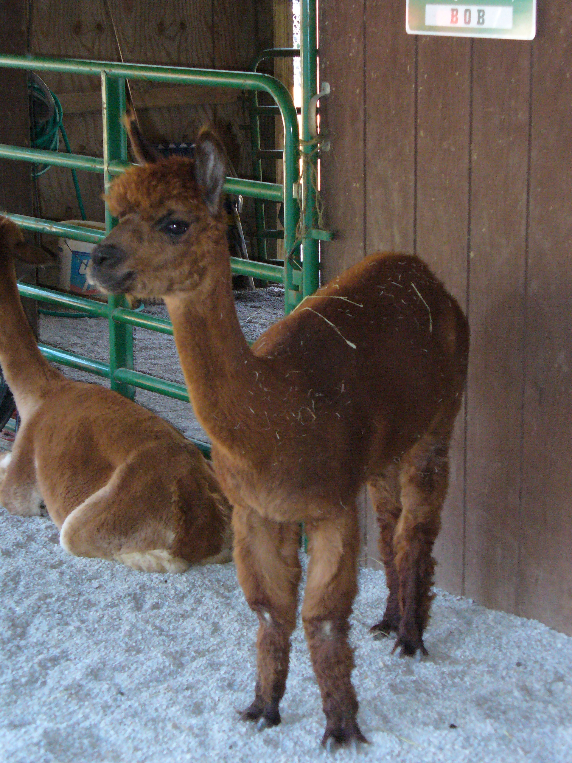 Alpacas in Rose Hill Farm, Chardon, Ohio, USA.